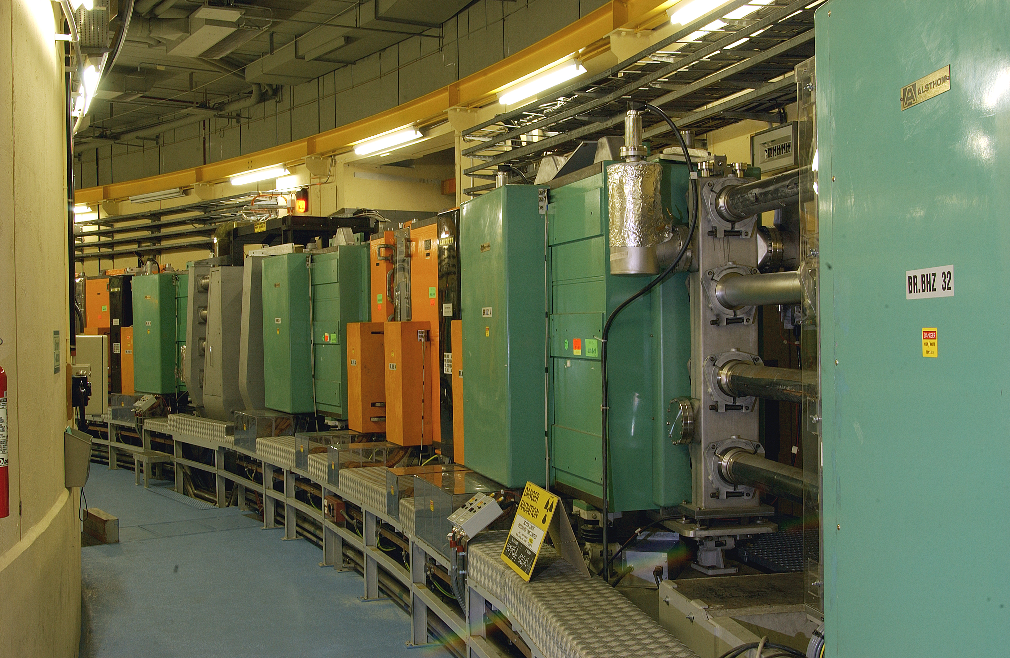 This picture shows one of the 16 periods of the Proton Synchrotron Booster. Following the direction of the beam from right to left the following components are visible: a bending magnet (green); an empty straight section; a bending magnet; a triplet quadrupole structure (orange); a bending magnet; a set of radio frequency-cavities (gray).